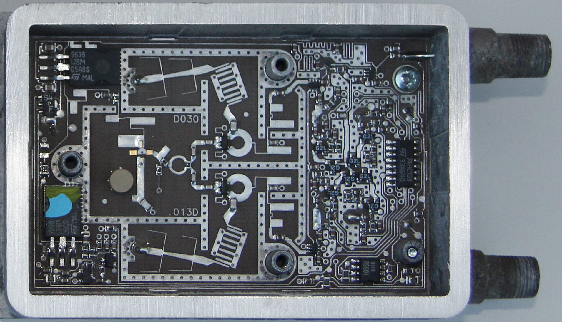 Circuitry inside a low-noise block converter for satellite TV